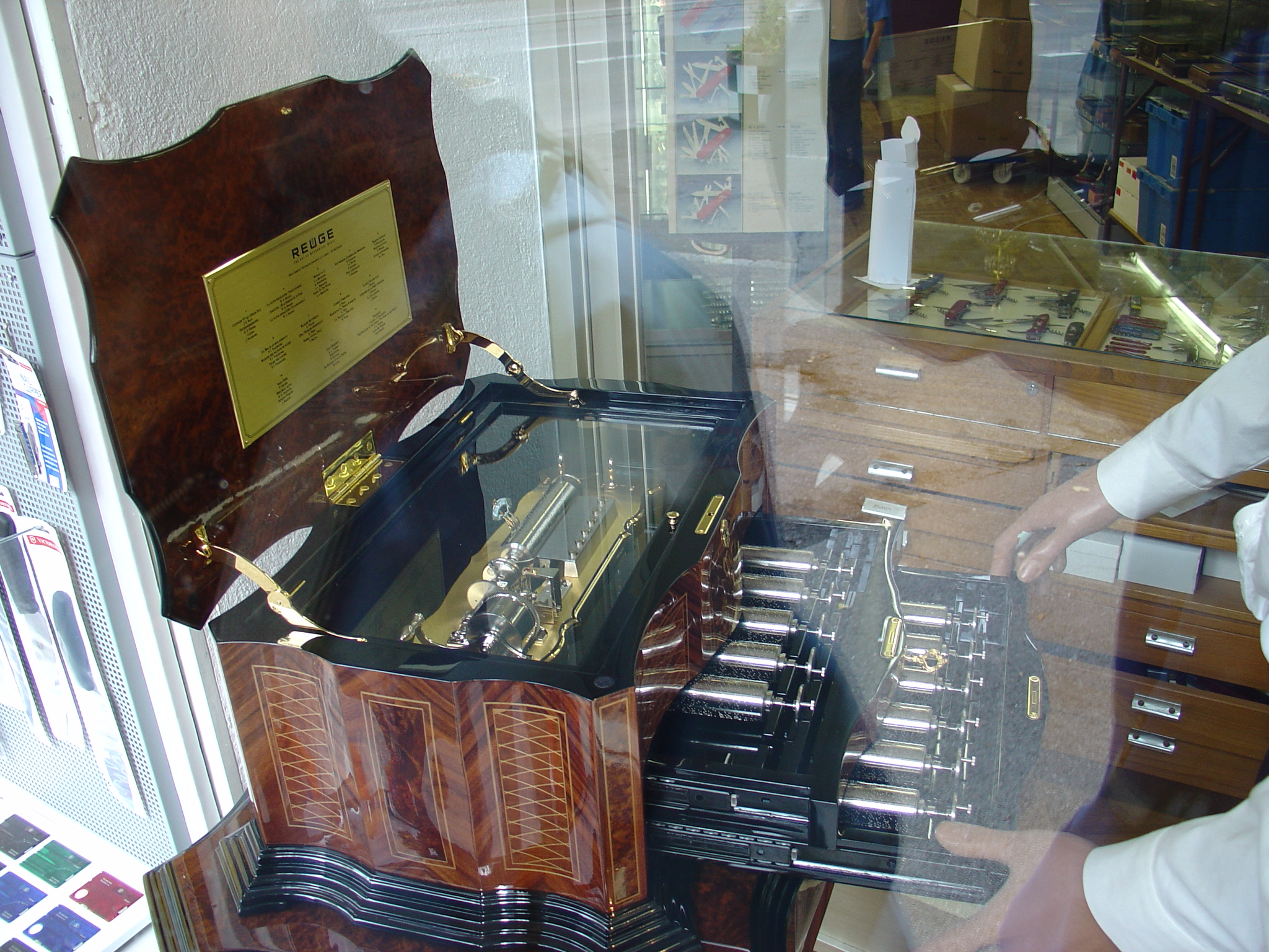 Musical box made by Reuge in Switzerland as exposed in Interlaken (30 July 2007) - with drawers containing 12 rolls of music